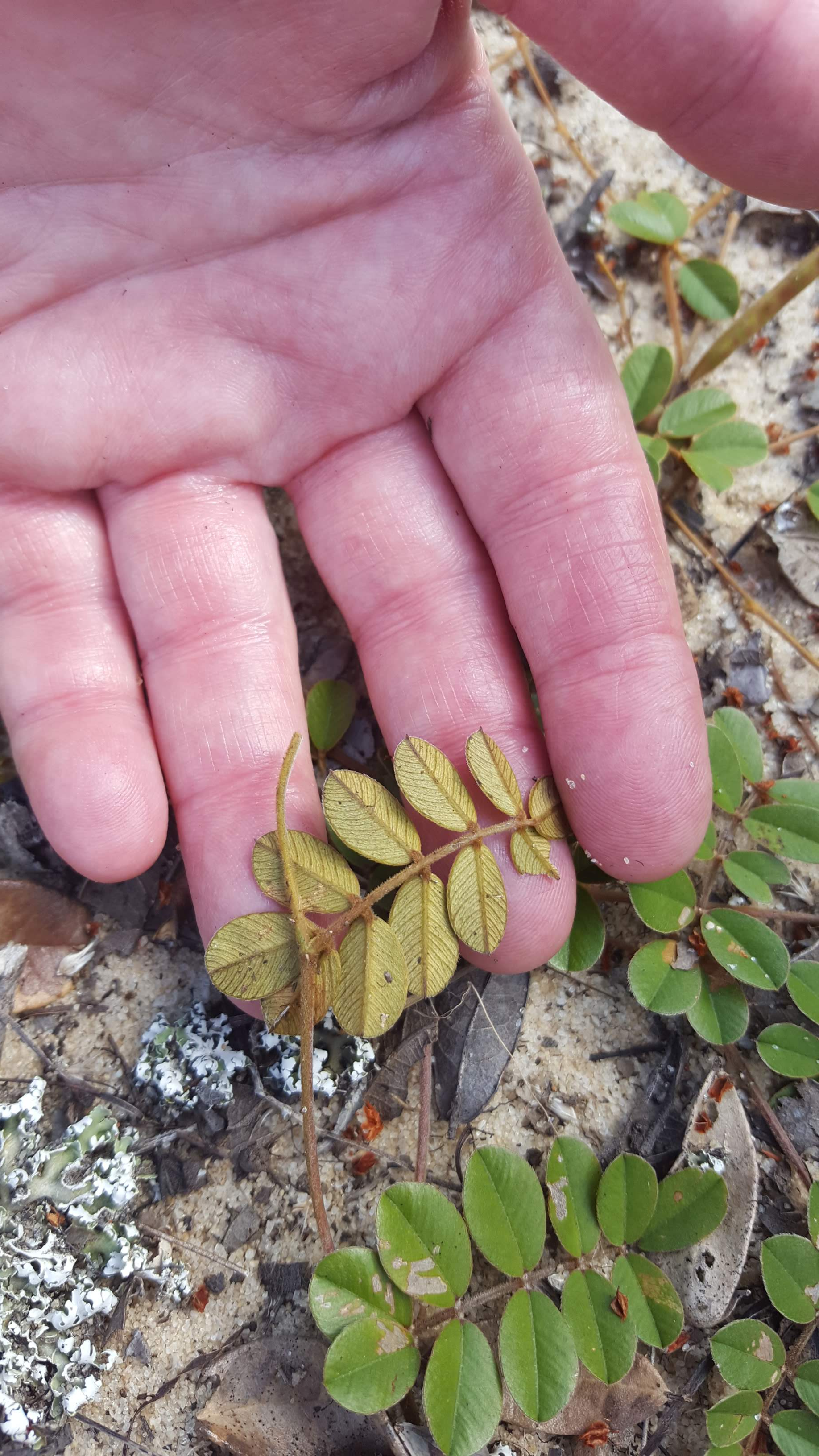 A person holds the sandhill tippetoes so that the undersides of the leaflets can be seen.